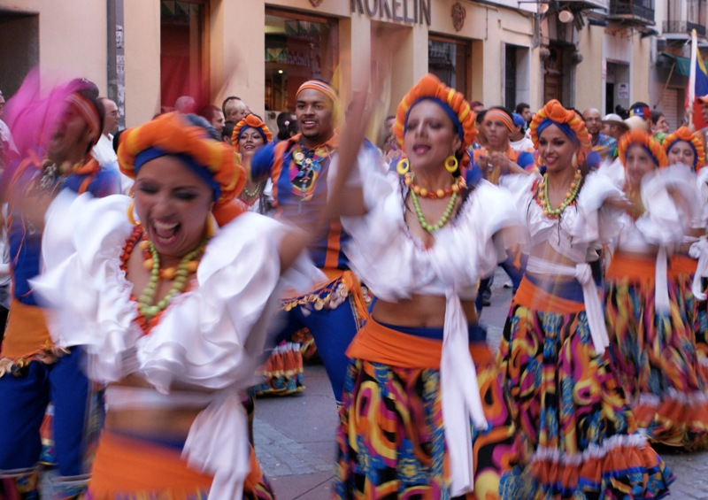 Festival Folklórico de los Pirineos en Jaca 2009 en su día de clausura, el 2 de agosto